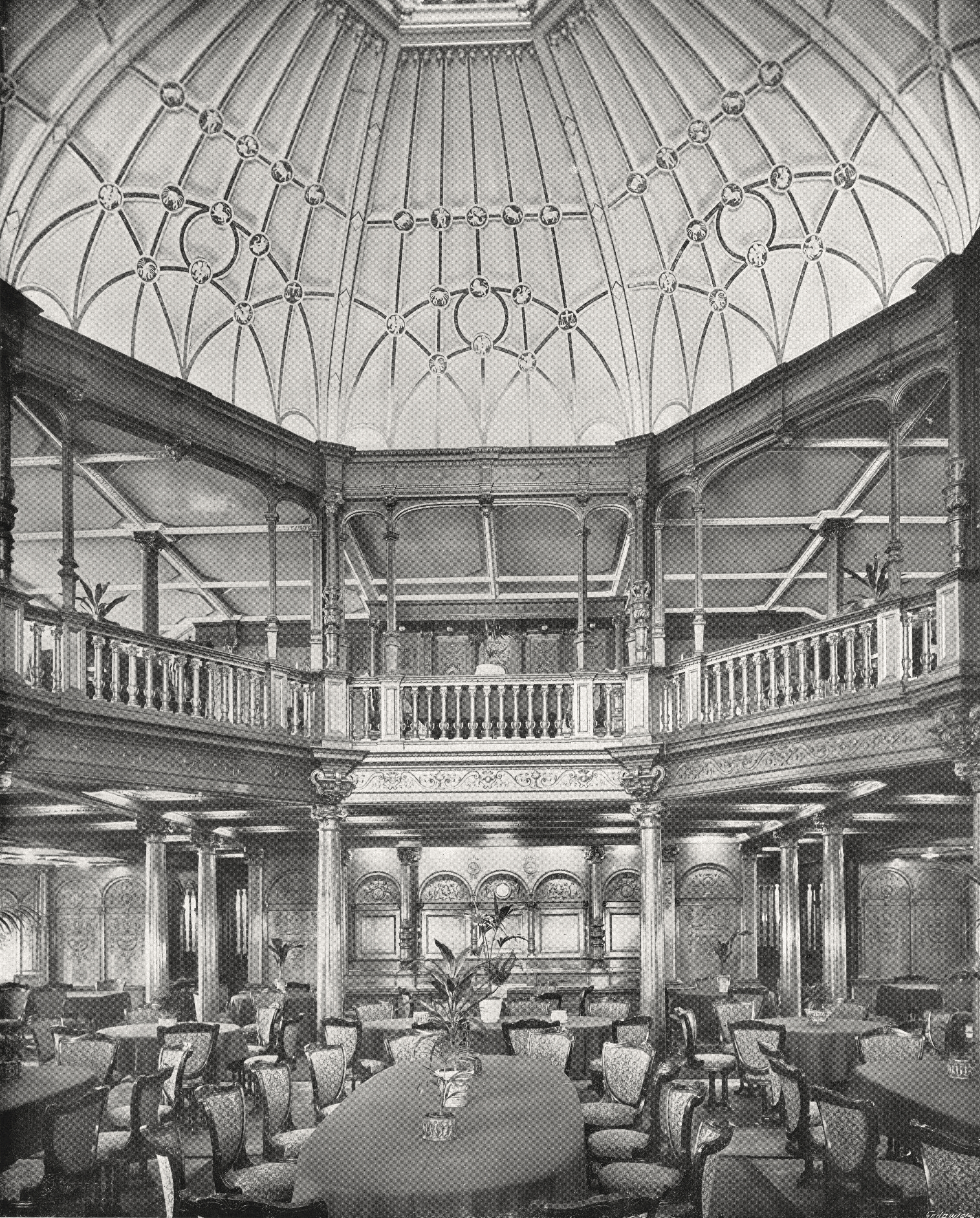 First Class Dining Saloon of the RMS Mauretania